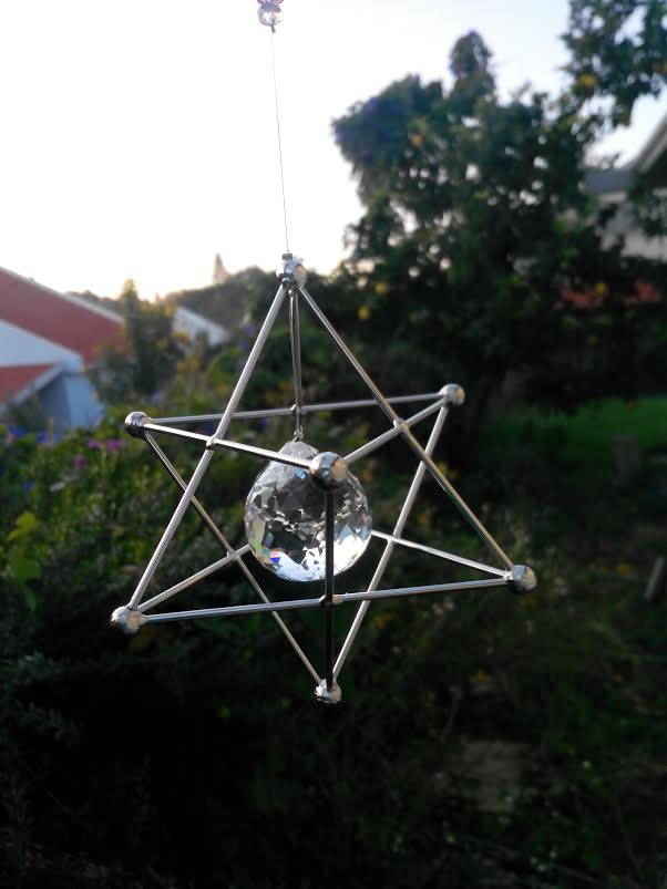 Kristal ball in Merkaba